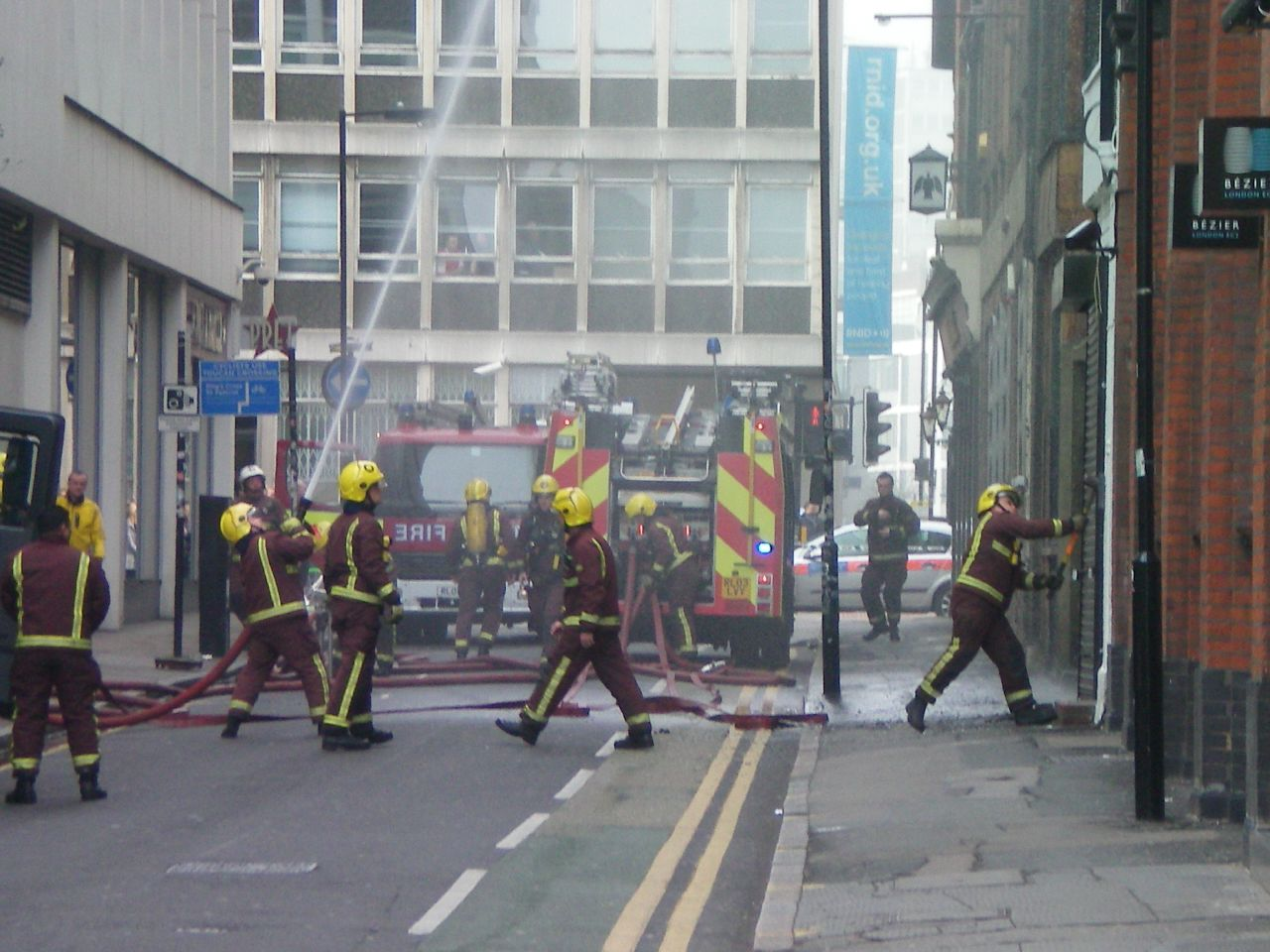 Firefighters in action at a blaze in Leonard Street, London